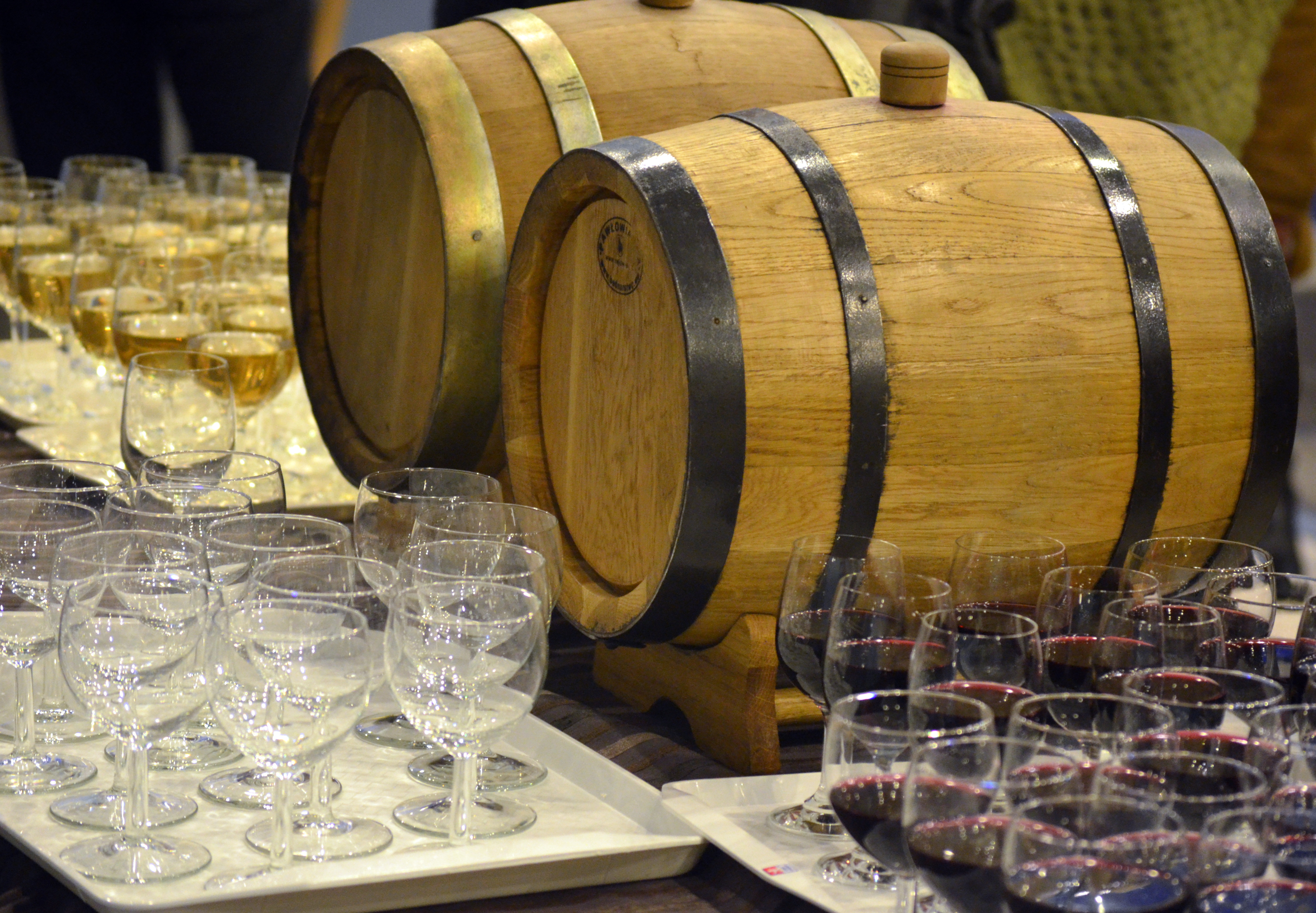 Wines of Subcarpathia